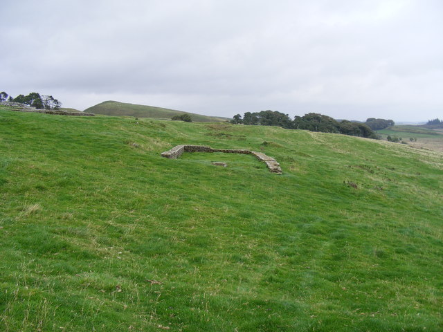 The Murder House outside Housestead's Roman Fort So called as two bodies were found one with the point of a knife lodged between his ribs